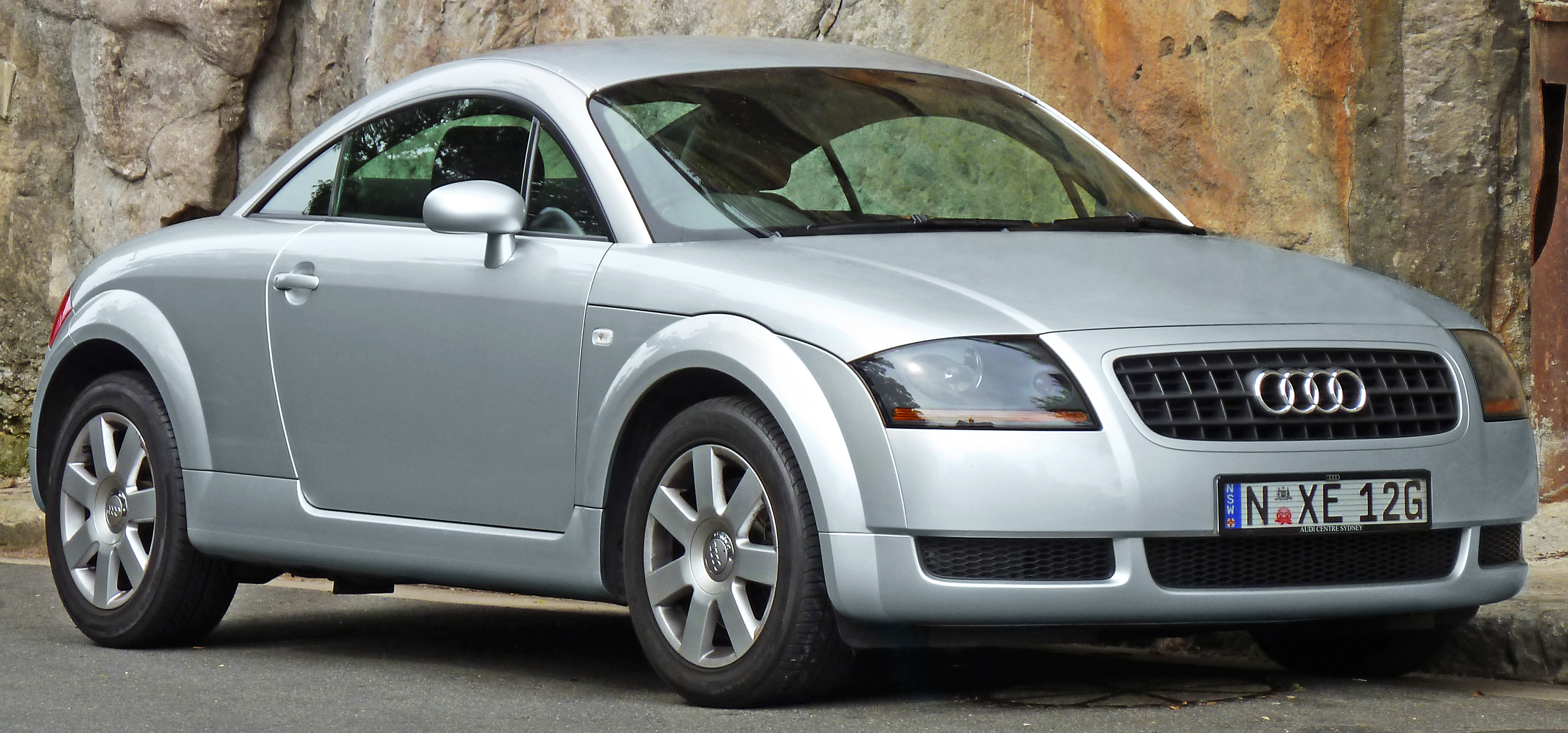 2003–2006 Audi TT (8N) 1.8 T coupe. Photographed in Woolloomooloo, New South Wales, Australia.